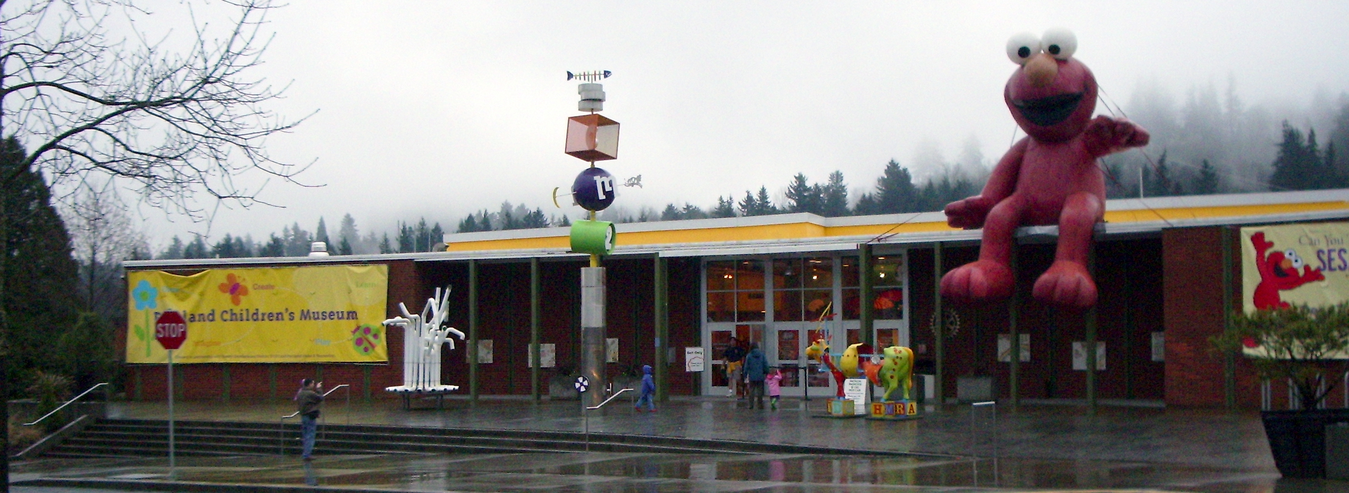 Portland Children's Museum entrance. The Children's museum is located in Washington Park, Portland